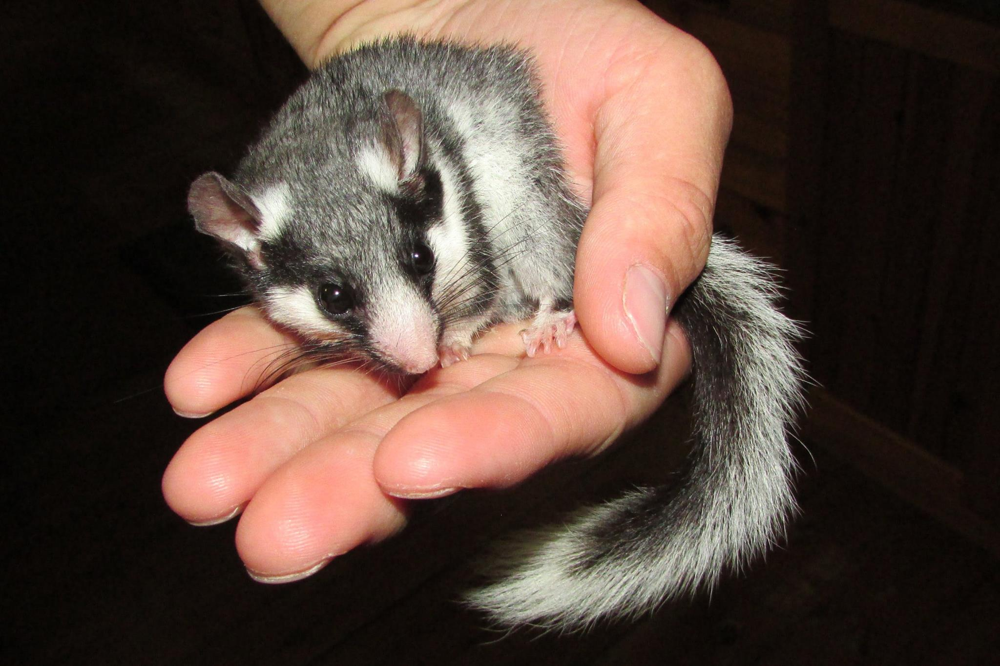 Graphiurus ocularis (Smith, 1829) - Namtap - Cederberg, Western Cape, South Africa